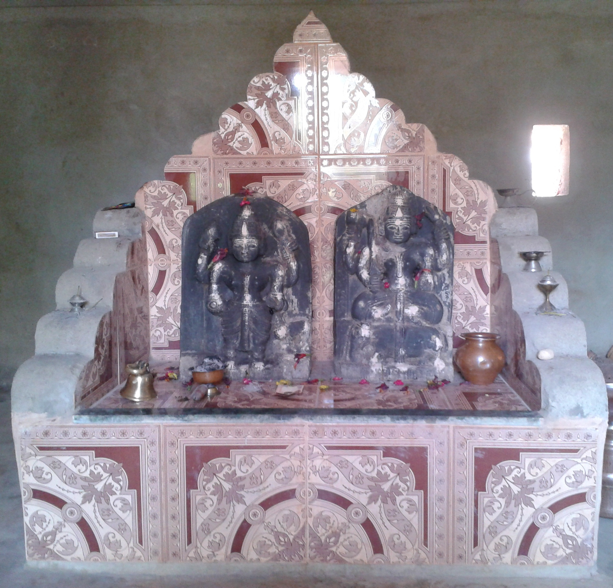 Idols of Shri Aday Durgay Goddesses carved out of black stone